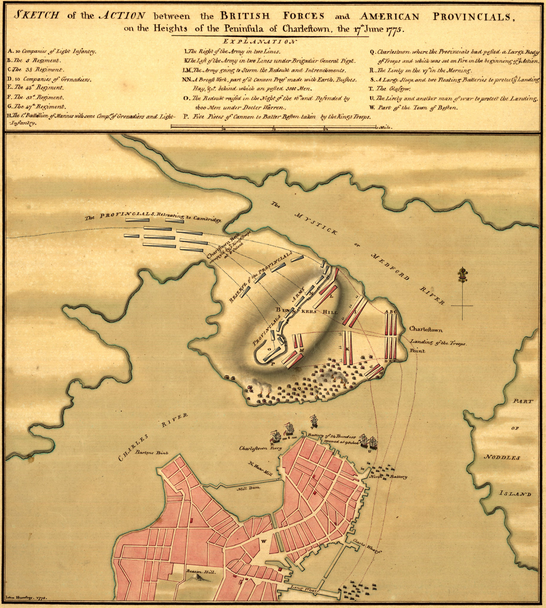 Map of the Battle of Bunker Hill, drawn 1775 by John Humfrey.